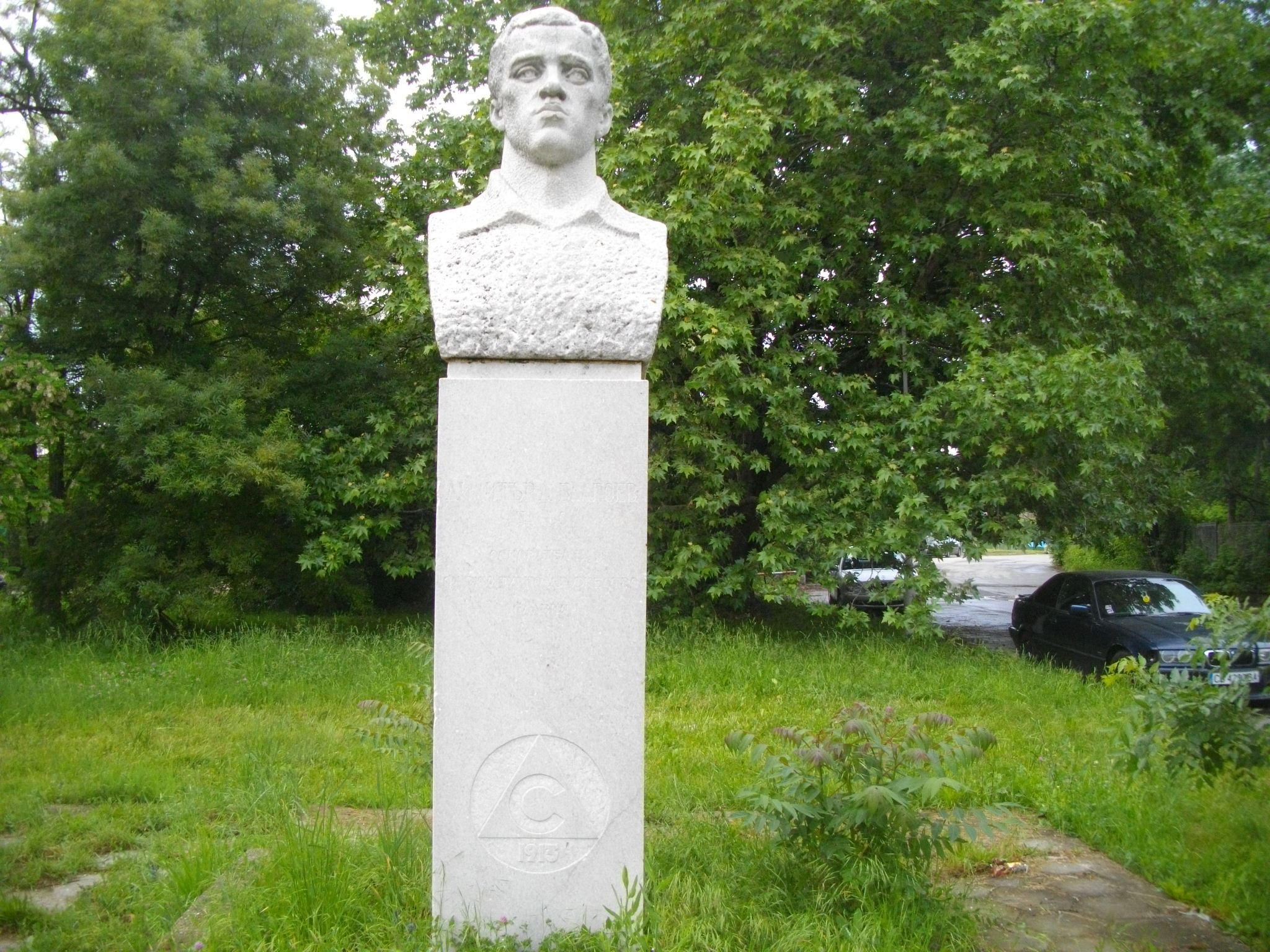 Bust of Dimiter Blagoev - Palyo, football player and founder of FC Slavia Sofia 1913